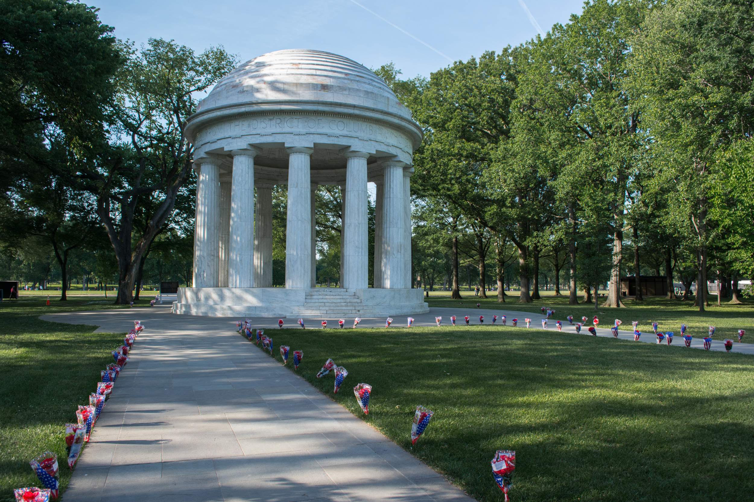 Looking north at the District of Columbia War Memorial in West Potomac Park (the National Mall) in Washington, D.C., in the United States. The memorial honors citizens of the District of Columba who fought in World War I. It was authorized by Congress in 1924, but funding to construct the memorial came exclusively from people and businesses in the District and no federal funds were used. Construction began in the spring of 1931, and it was dedicated on November 11, 1931 (Armistice Day). The Neoclassical memorial was designed by architects Frederick H. Brooke, Horace W. Peaslee, and Nathan C. Wyeth. It's 47 feet tall, and features a circular peristyle of 12 Doric columns, each 22 feet high, supporting a drum. Atop the drum is a corbelled dome (a series of horizontal rings, each one of which is slightly cantilevered inward). A four-foot high, 43-foot, 5-inch wide marble base has steps cut into it on the north and south. Inscribed on the base are the names of the 499 D.C. residents who lost their lives in the war, and medallions representing the branches of the armed forces. The concrete foundation of the structure is set deep into the earth, supported by pilings. Slate walkways lead to and from the structure on the north and south side, and surround it. This is Memorial Day 2014, and bouquets of red carnations have been planted all around the memorial's walkways by the Memorial Day Foundation. A small wreath was left by the Army-Navy Union. The memorial was rededicated on November 10, 2011, after it underwent a $2 million cleaning, rehabilitation, and landscaping.